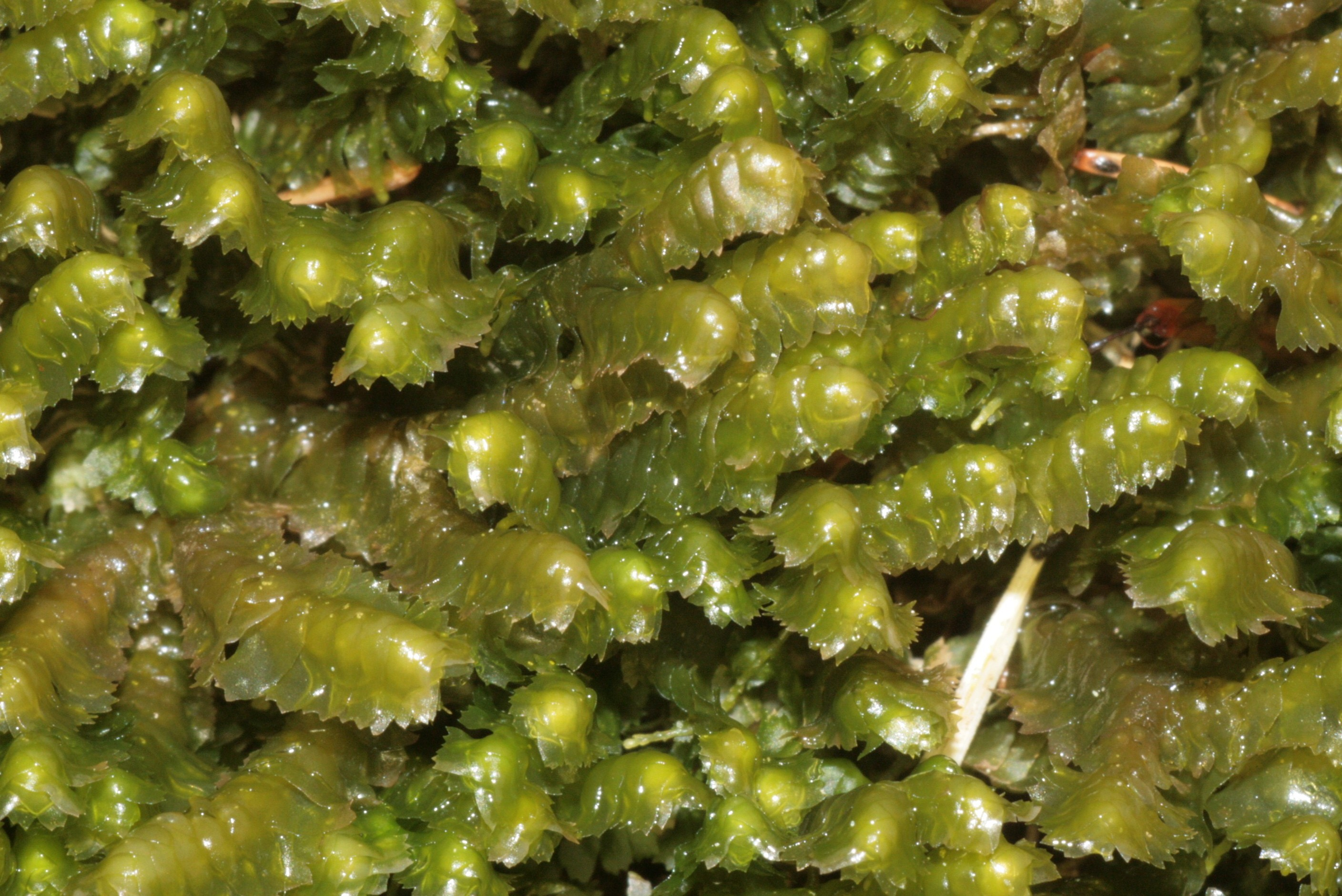 Bazzania trilobata